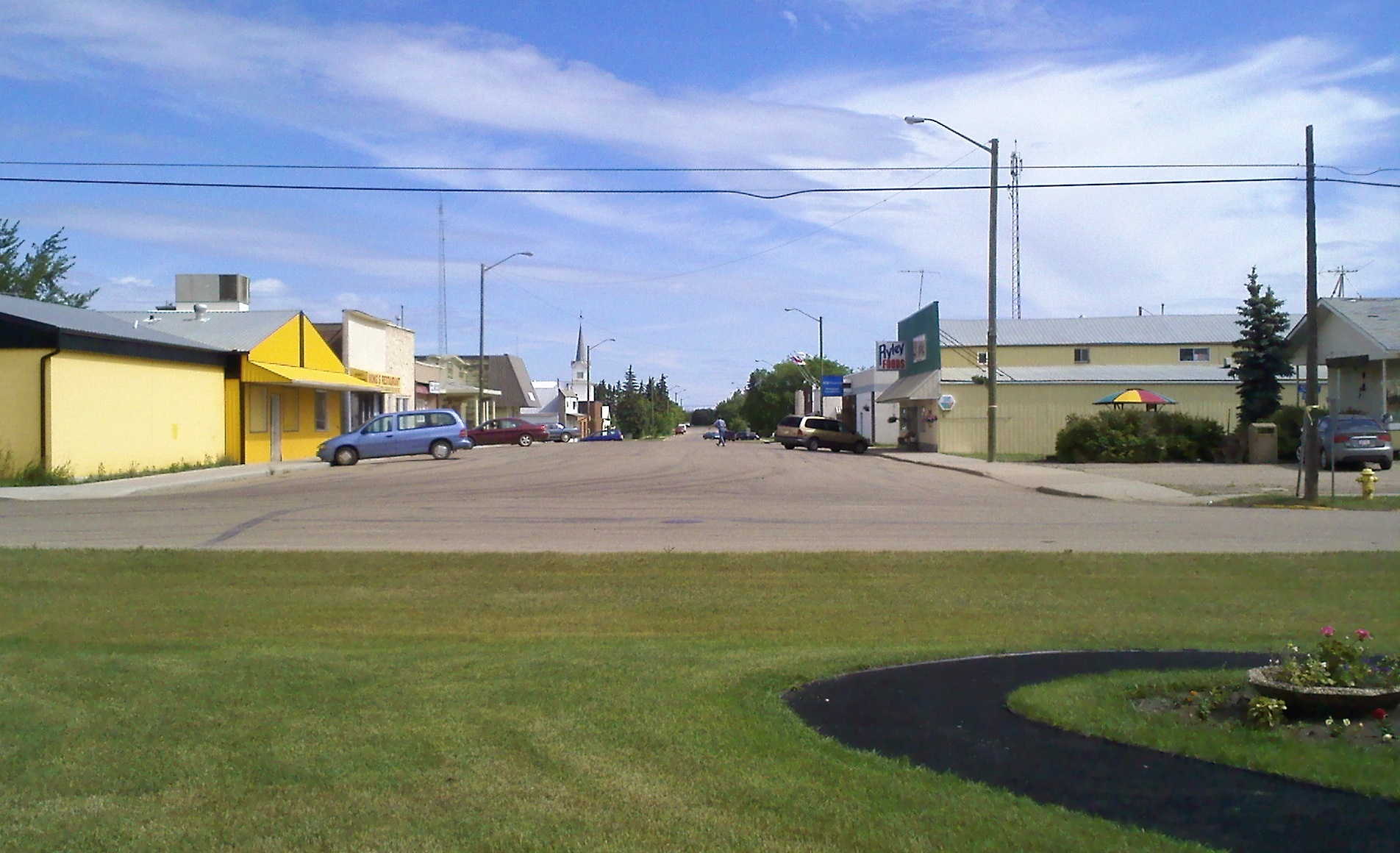 50 (Main) Street in Ryley, Alberta, from Century Park, at its south end.